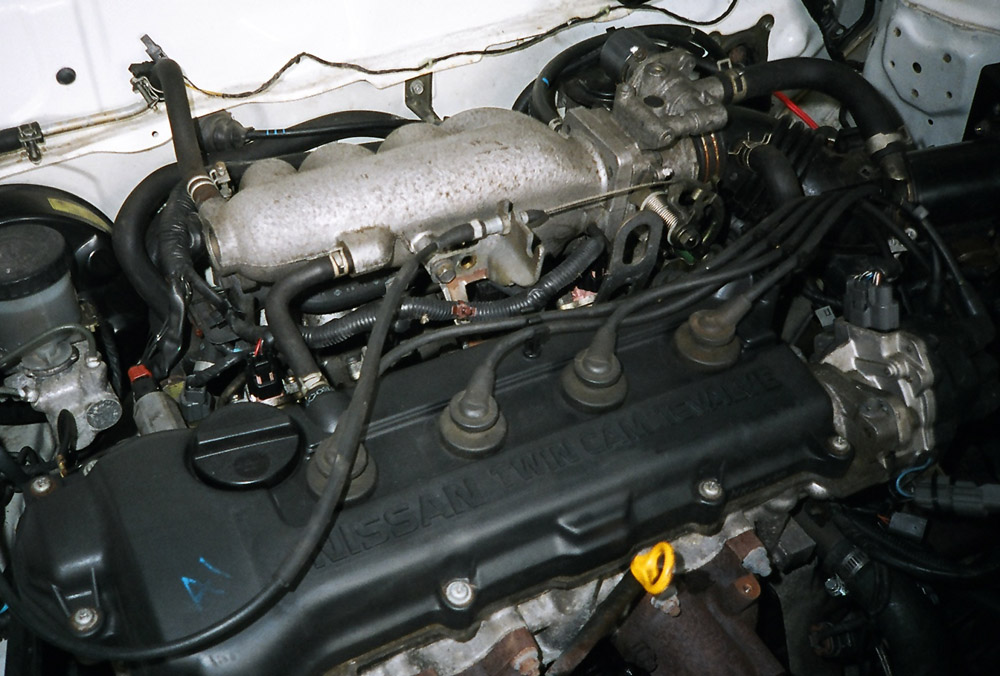 Took photo myself, December 2003, Waikanae, New Zealand, photo shows GA16DE.